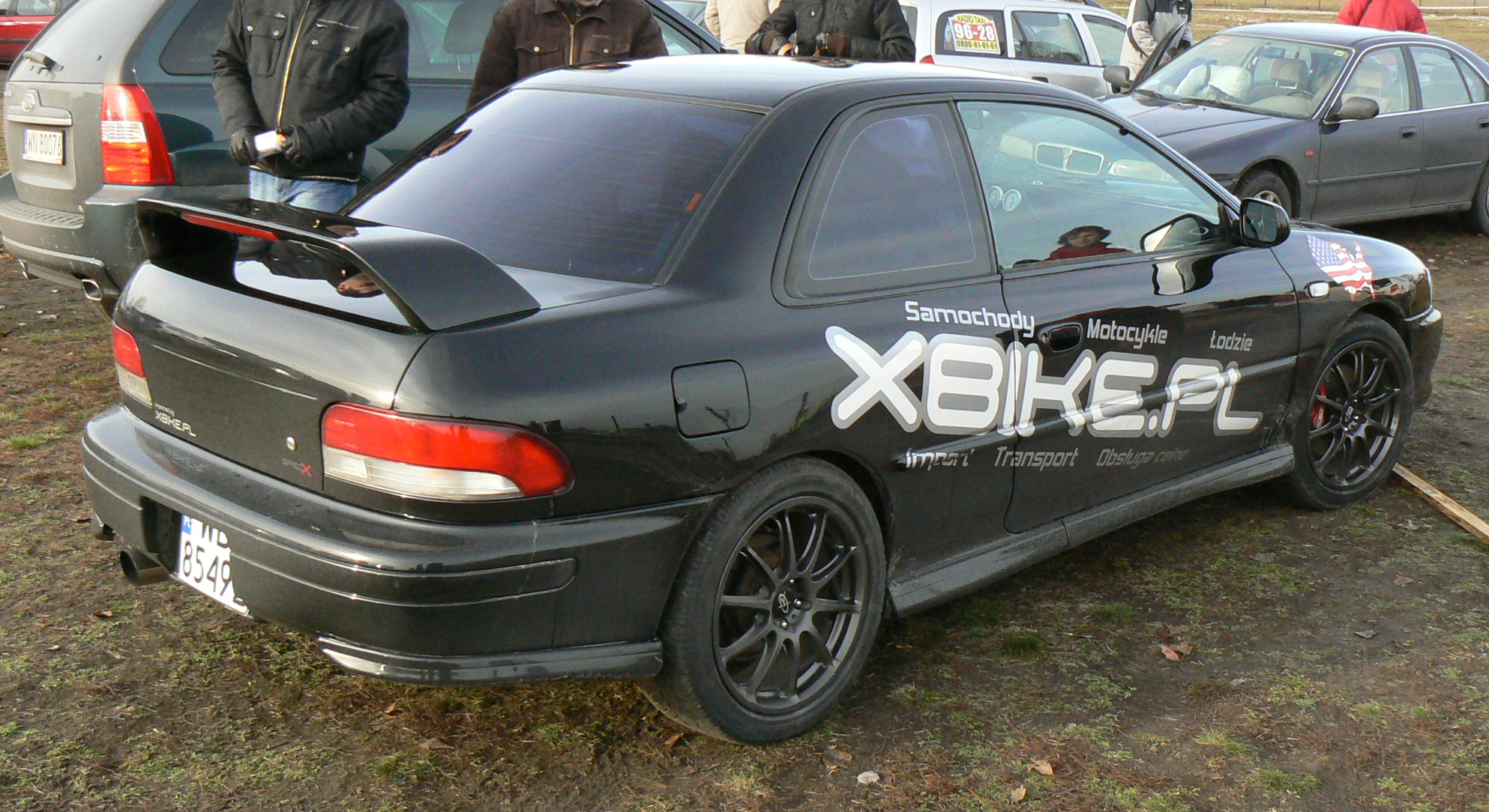 First generation Subaru Impreza WRX. Photo taken in Warsaw, Poland.